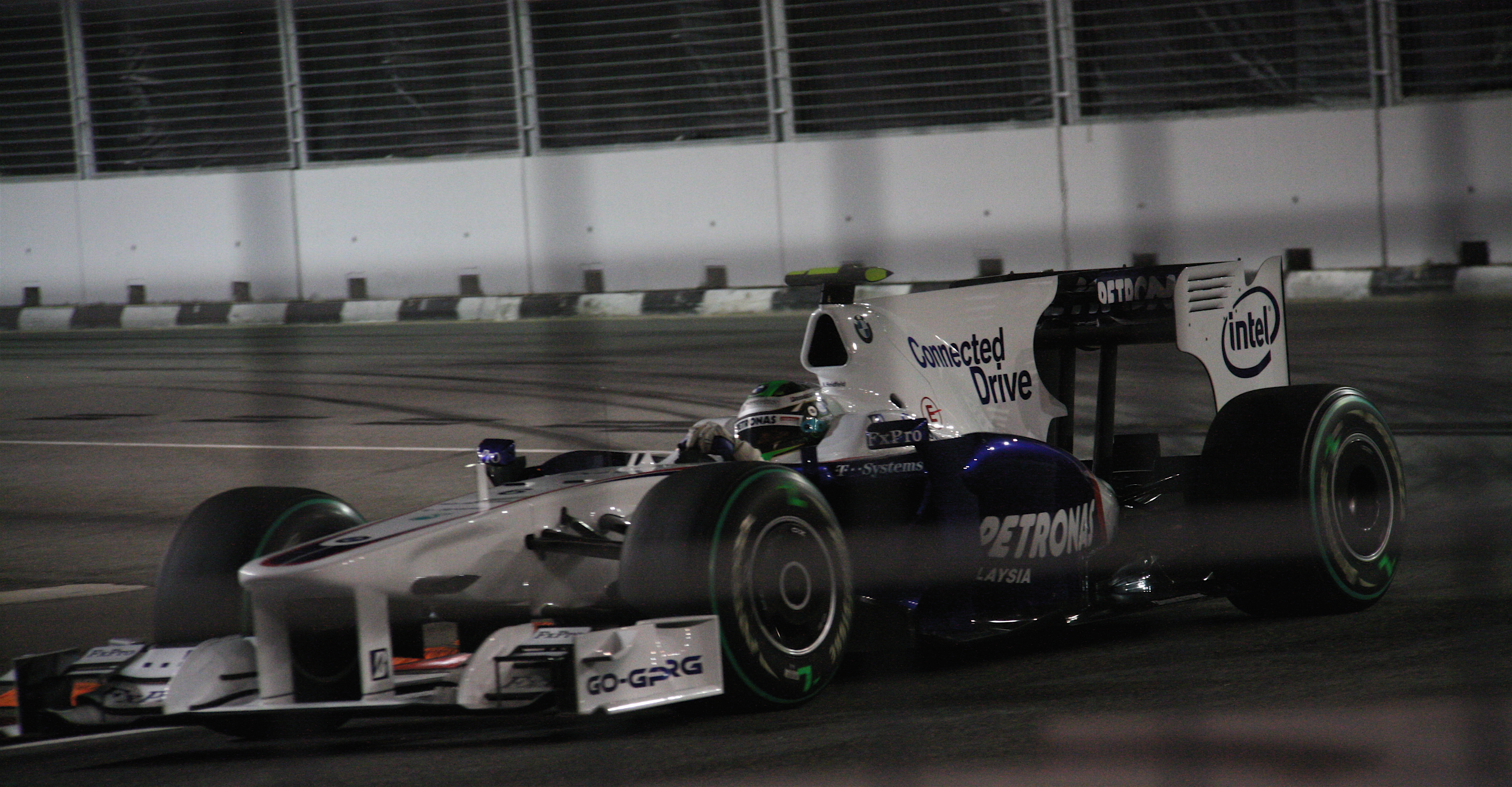 Nick Heidfeld driving for BMW Sauber at the 2009 Singapore Grand Prix.